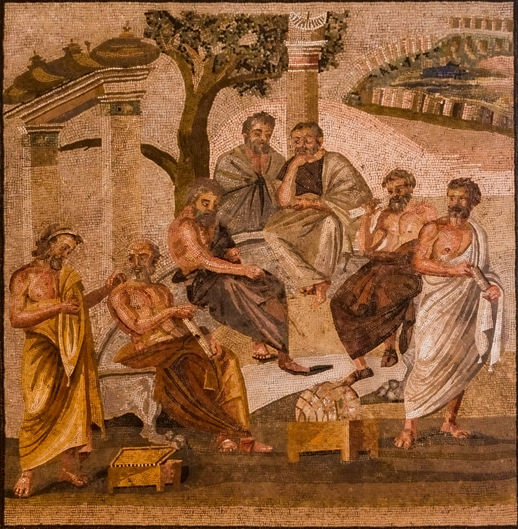 Plato's Academy mosaic. Roman mosaic of the 1st century BCE from Pompeii, now at the Museo Nazionale Archeologico, Naples.